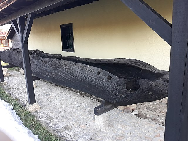 Old Slavic boat, Pokajnica church near Velika Plana, Serbia